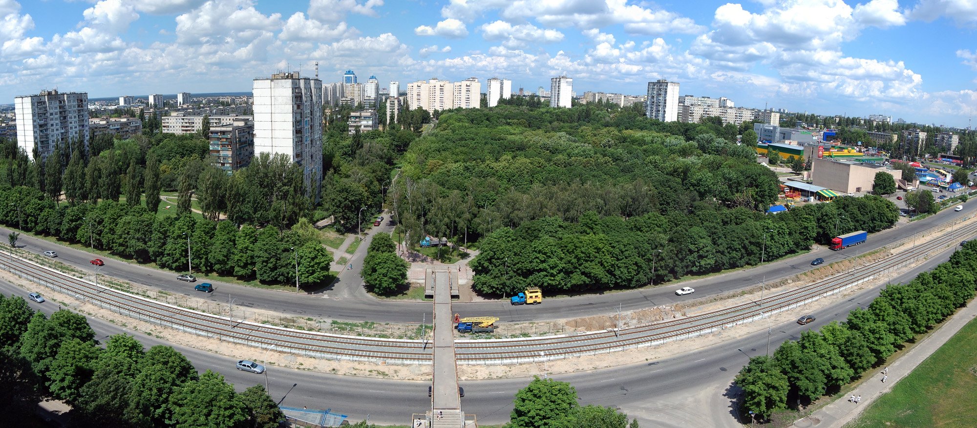 Kiev, Borschagovka, Les' Kurbas ave., International park view. In the foreground is Kiev Light Rail (fast tram) line undergoing the reconstruction.